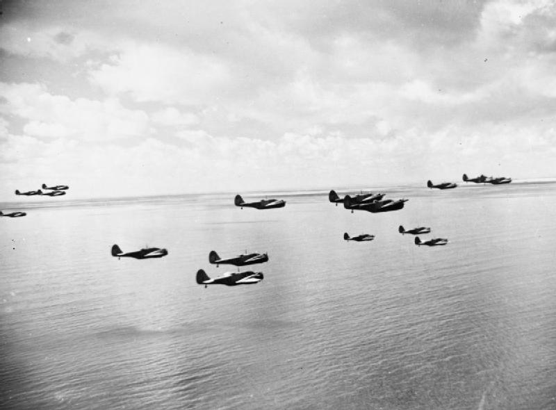 Royal Air Force Operations in the Middle East and North Africa, 1939-1943. Operation PUGILIST. Martin Baltimore Mark IIIAs of No. 232 Wing RAF flying in loose formation off the coast of Tunisia, en route to bomb the Mareth Line.